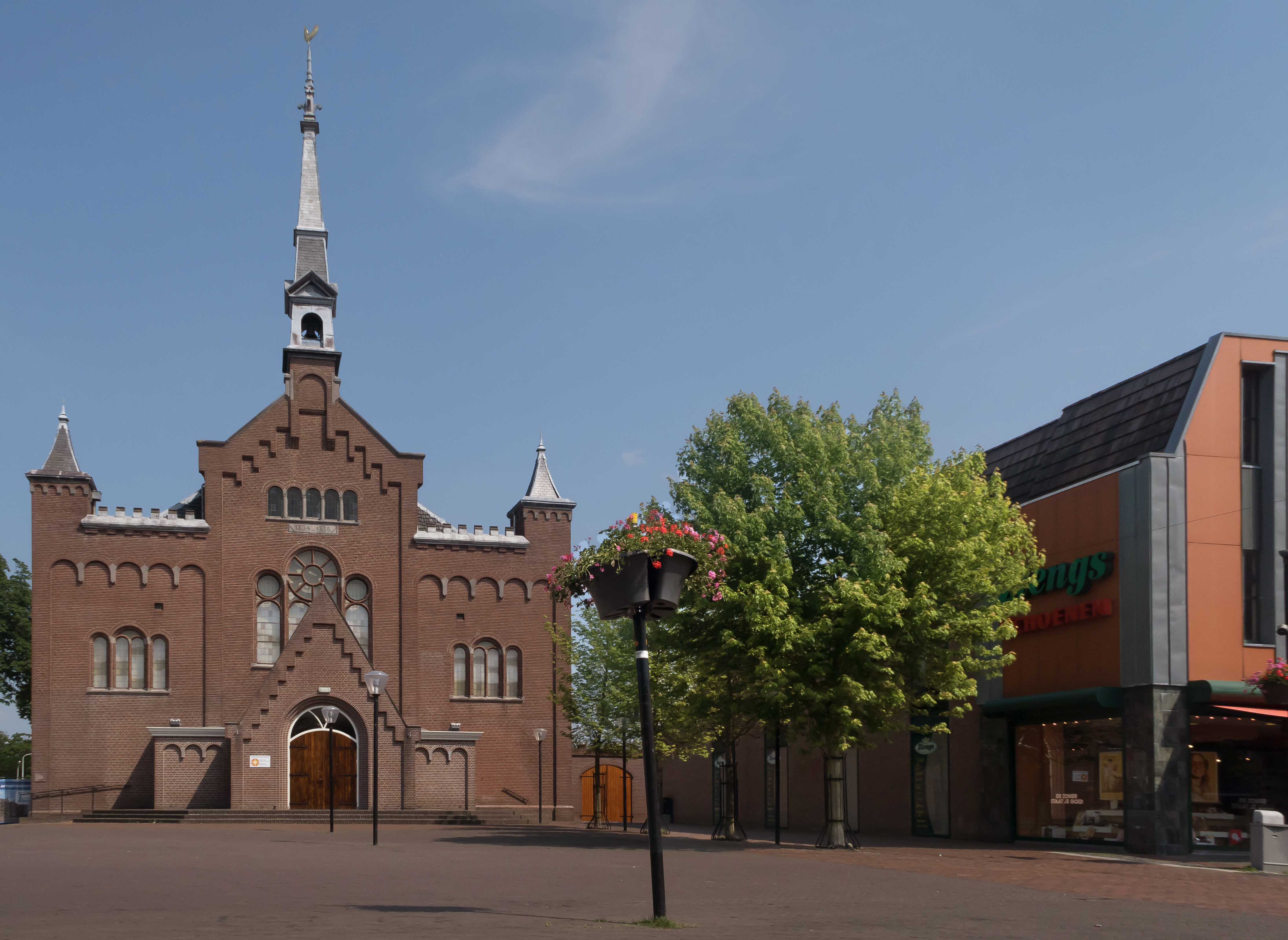 Hoogeveen, churches: de Hoofdstraatkerk